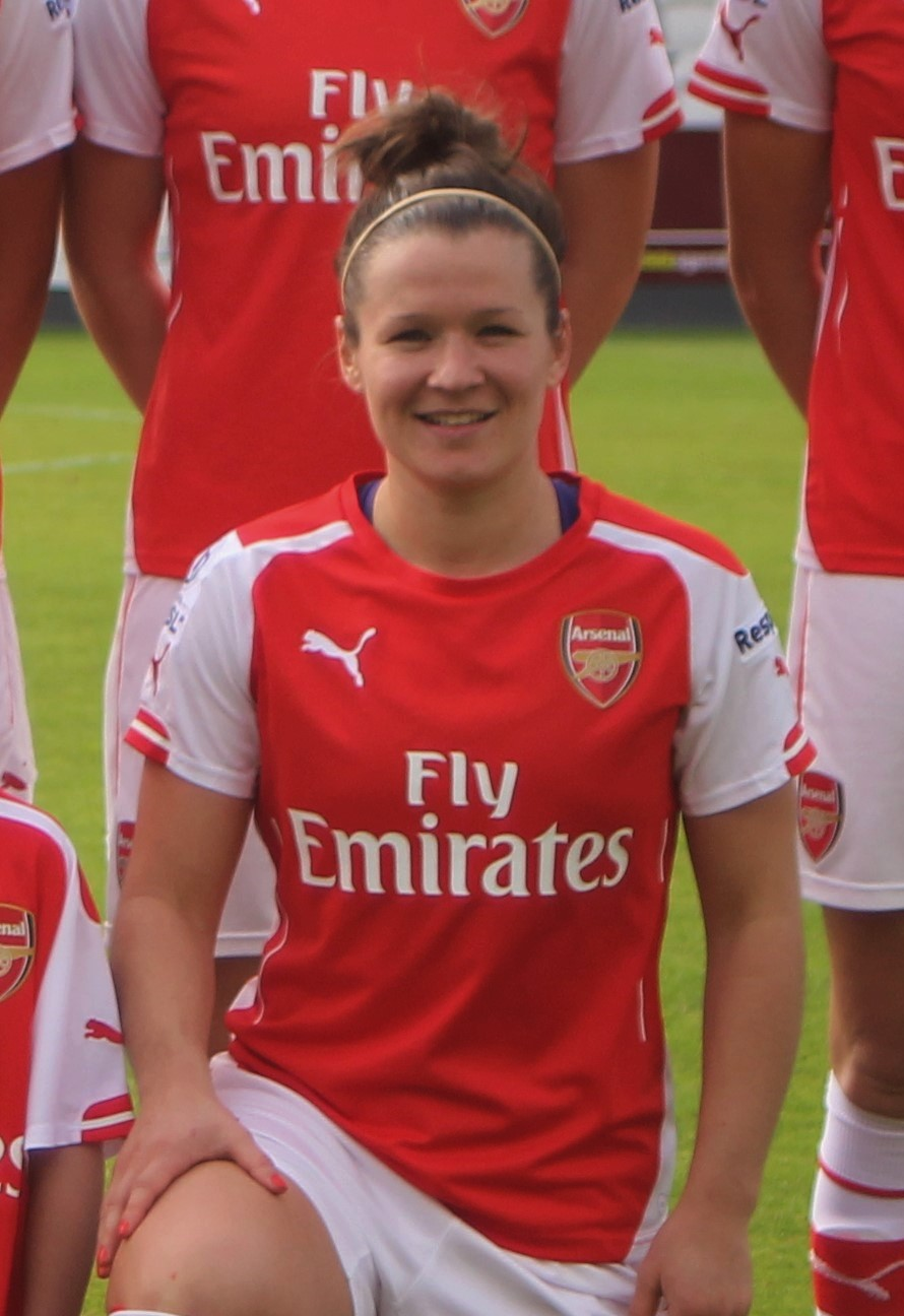 Arsenal Ladies line up for a team photo before the continental cup game against Notts County Ladies